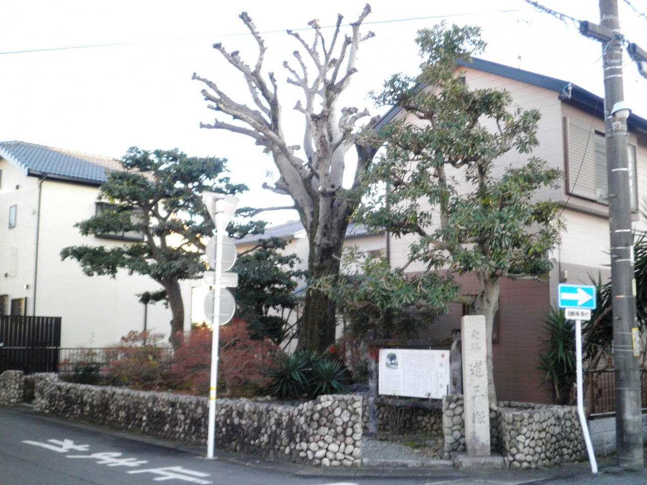 Dōsan-zuka, the memorial of Saitō Dōsan in Gifu, Gifu.